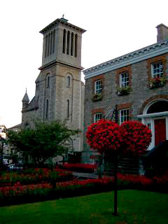 My photograph of St. Mary's Roman Catholic Church in Navan. Any copyright claims hereby waved. All yours, wikipedia!